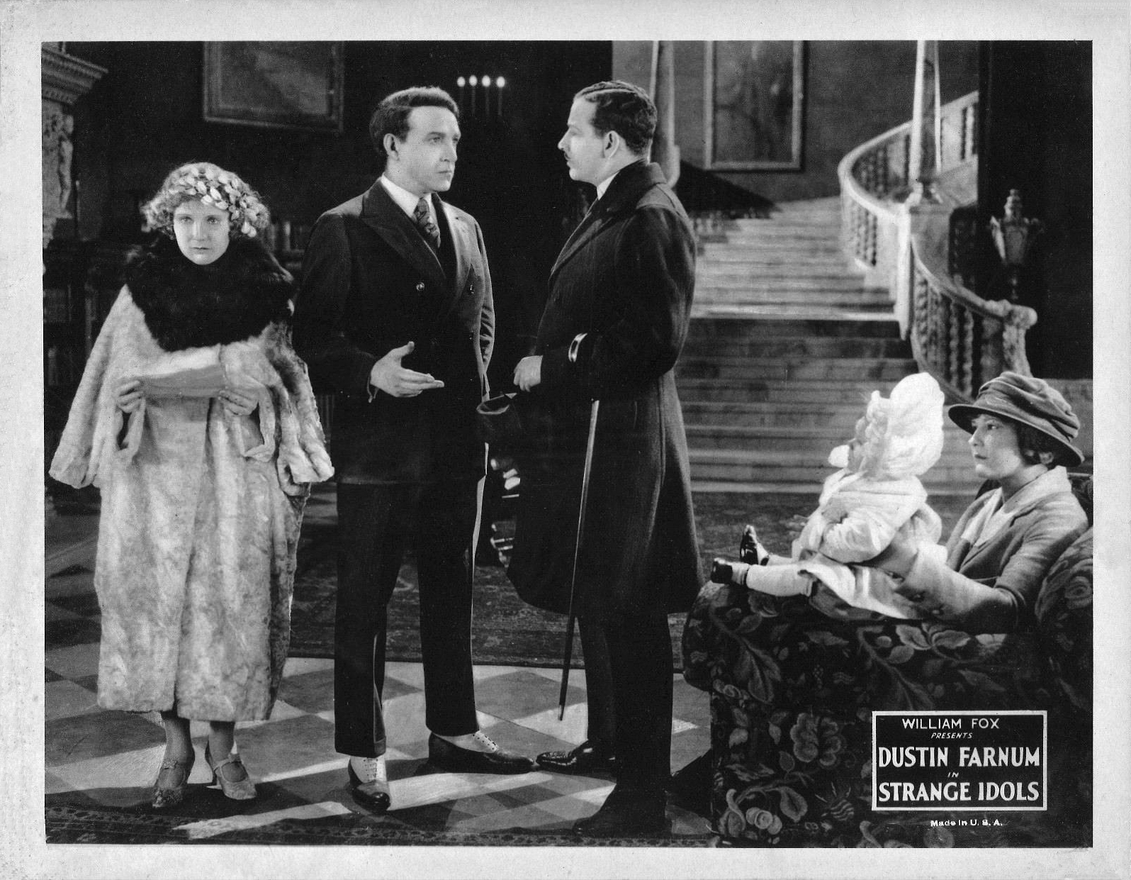 This is a lobby card for the 1922 American silent romantic drama film Strange Idols.